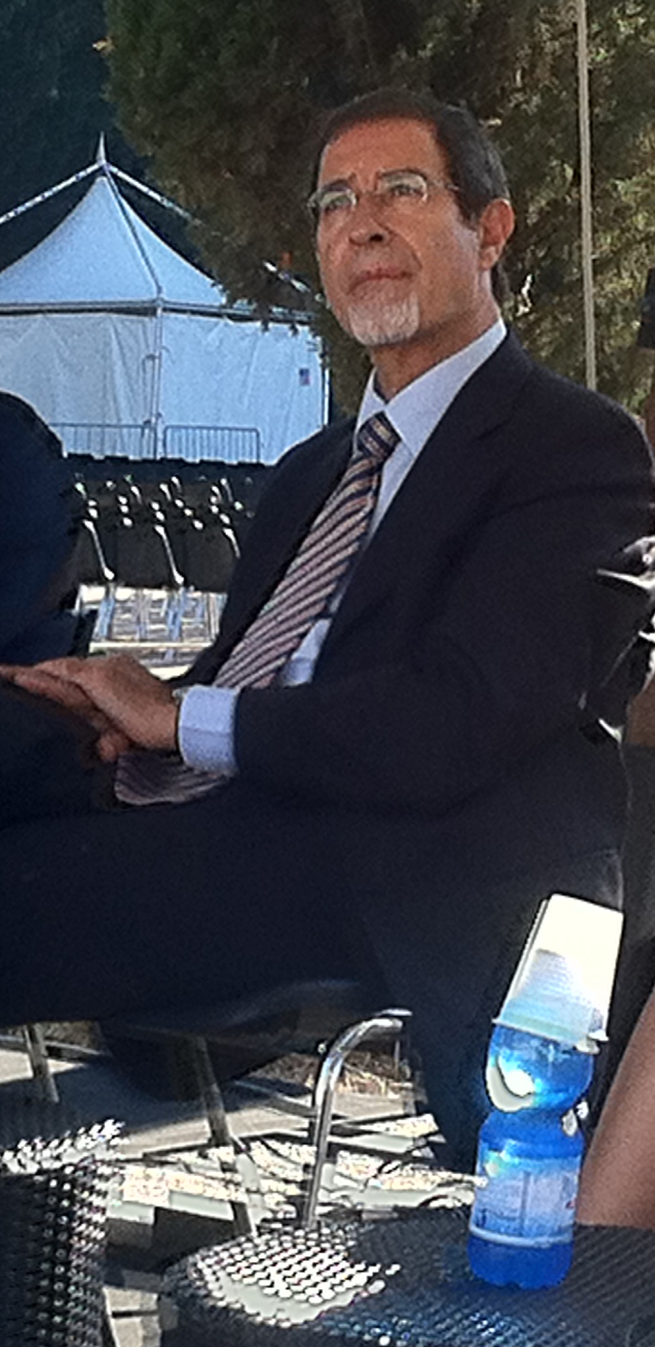 The Italian politician Sebastiano "Nello" Musumeci